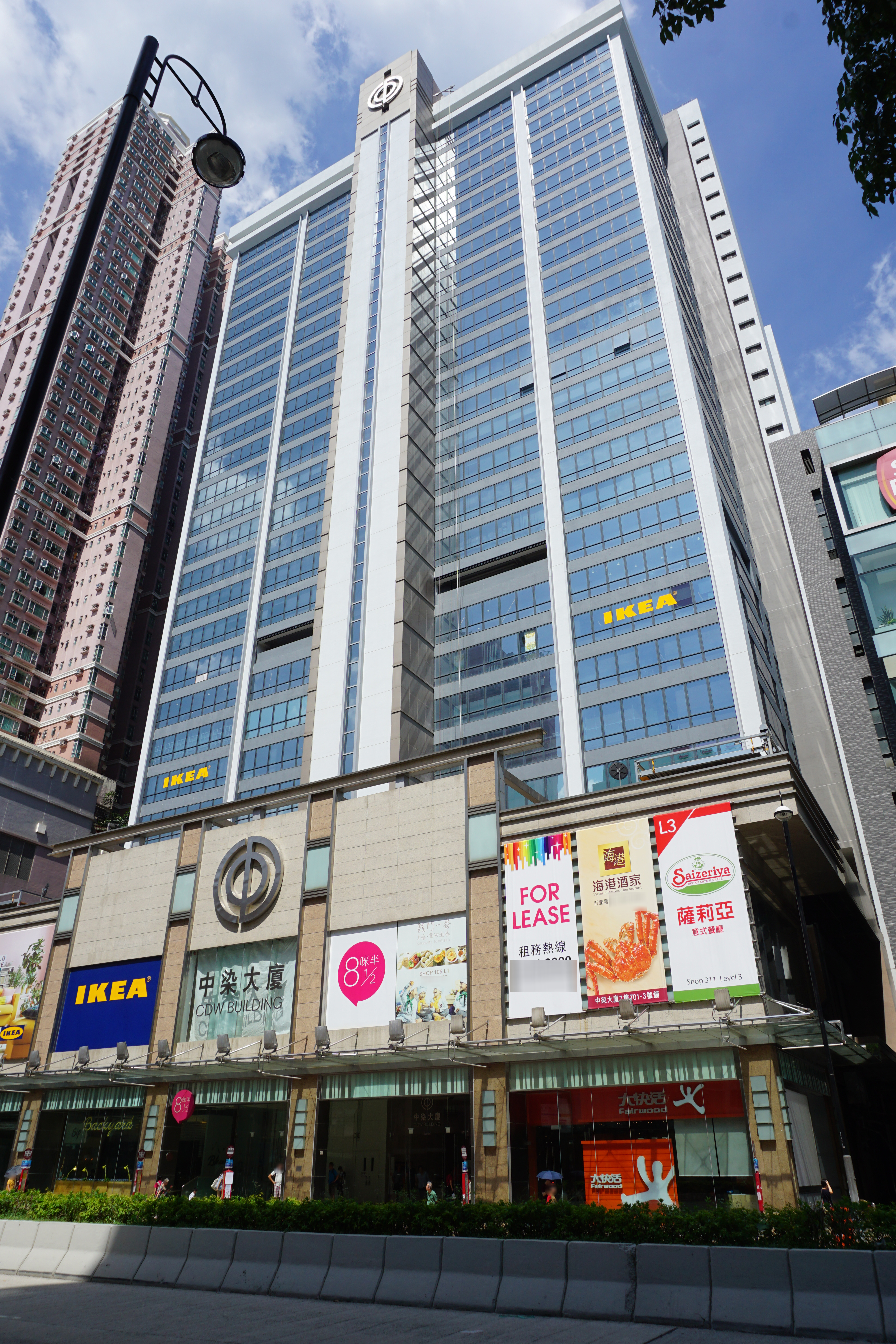 CDW Building in Tsuen Wan, Hong Kong.